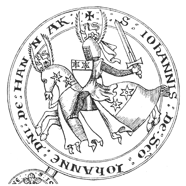 1611 Drawing by Nicholas Charles, Lancaster Herald, of seal of John de St John of Halnaker (near Chichester, West Sussex) appended to Barons' Letter 1301 (A Exemplar)